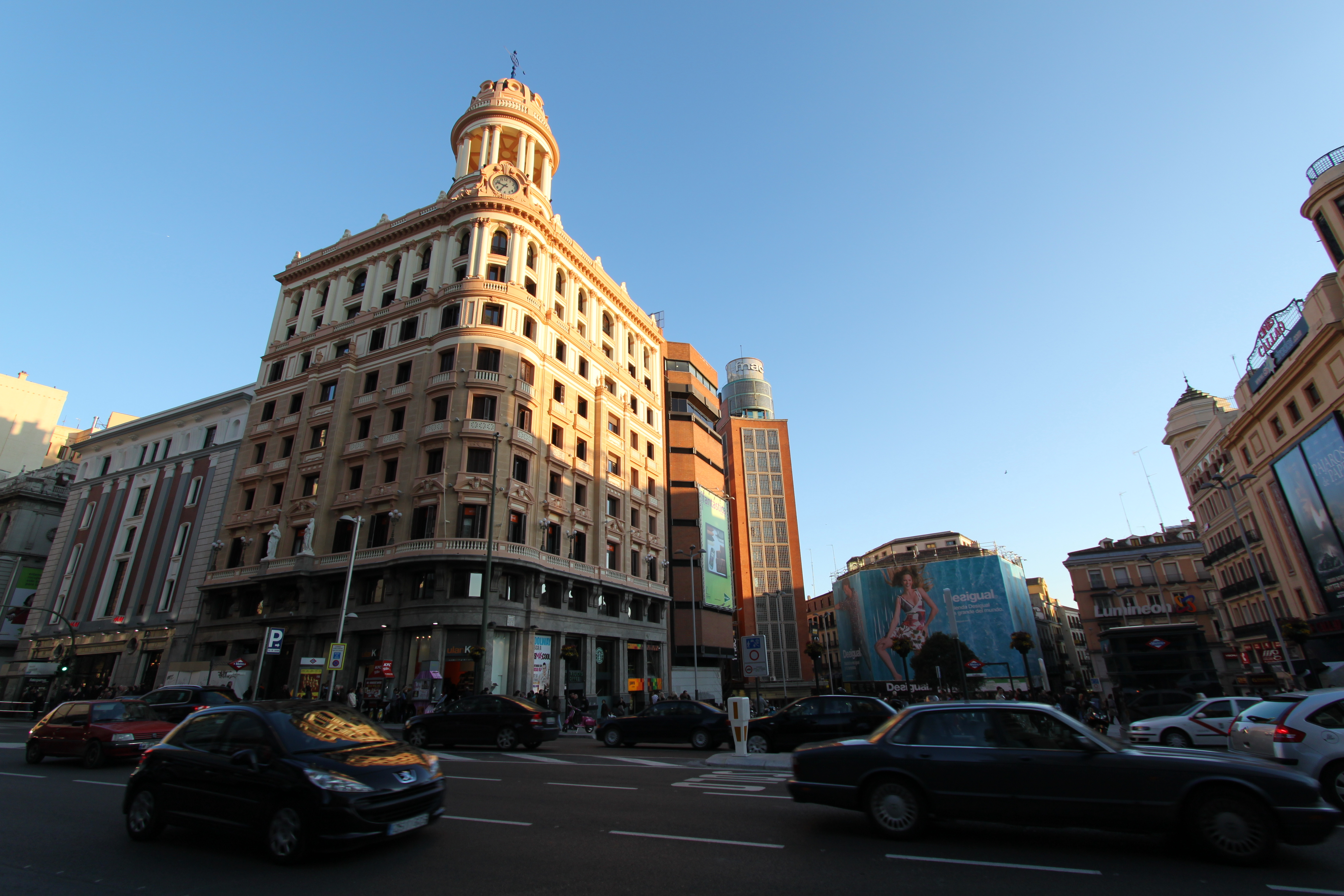 Plaza del Callao (square) in Madrid (Spain). Left: La Adriática Building.